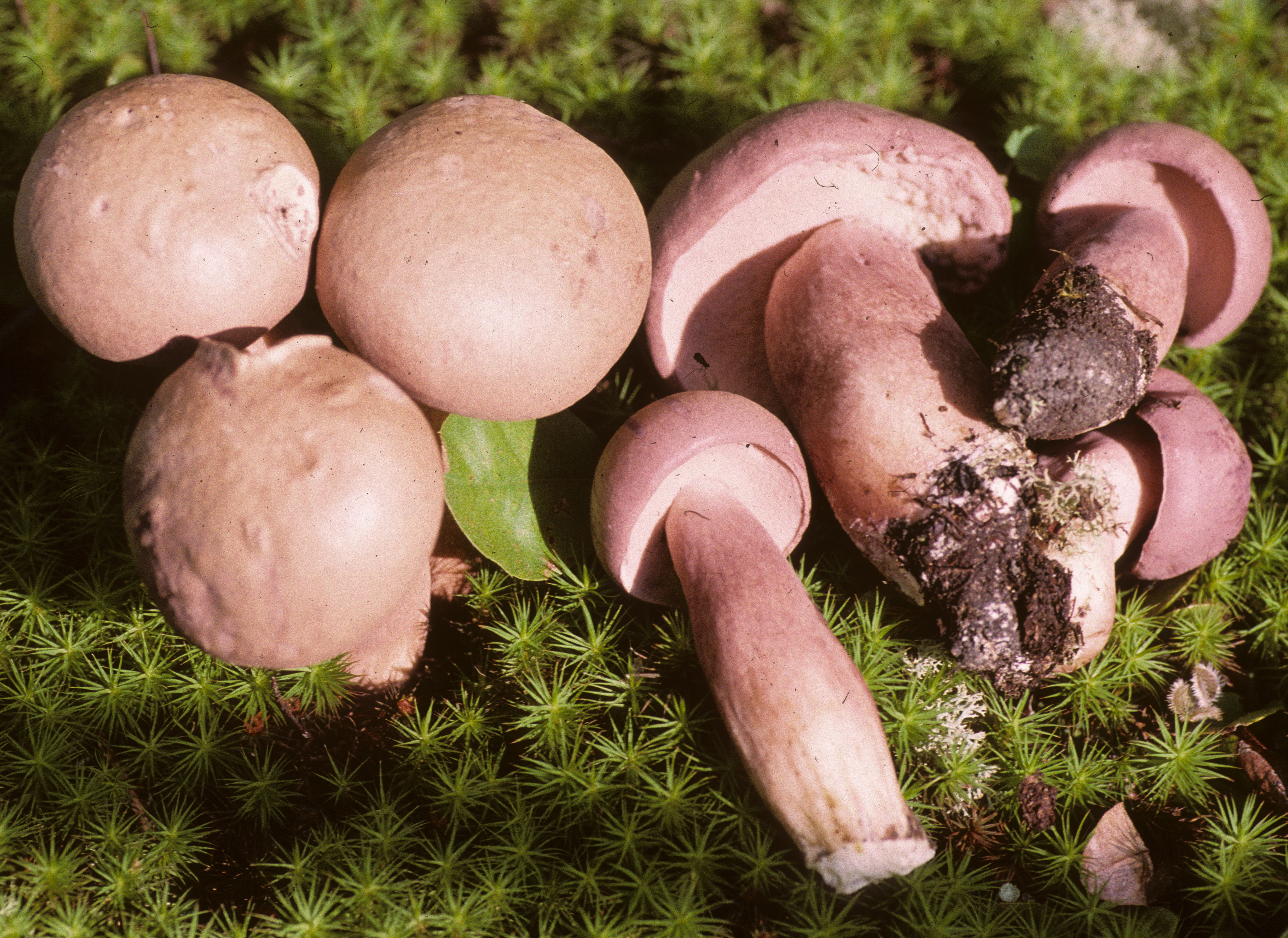 The bolete mushroom Tylopilus violatinctus. Specimens collected in Beaver Kettle Farm, East Liverpool, Ohio, USA.